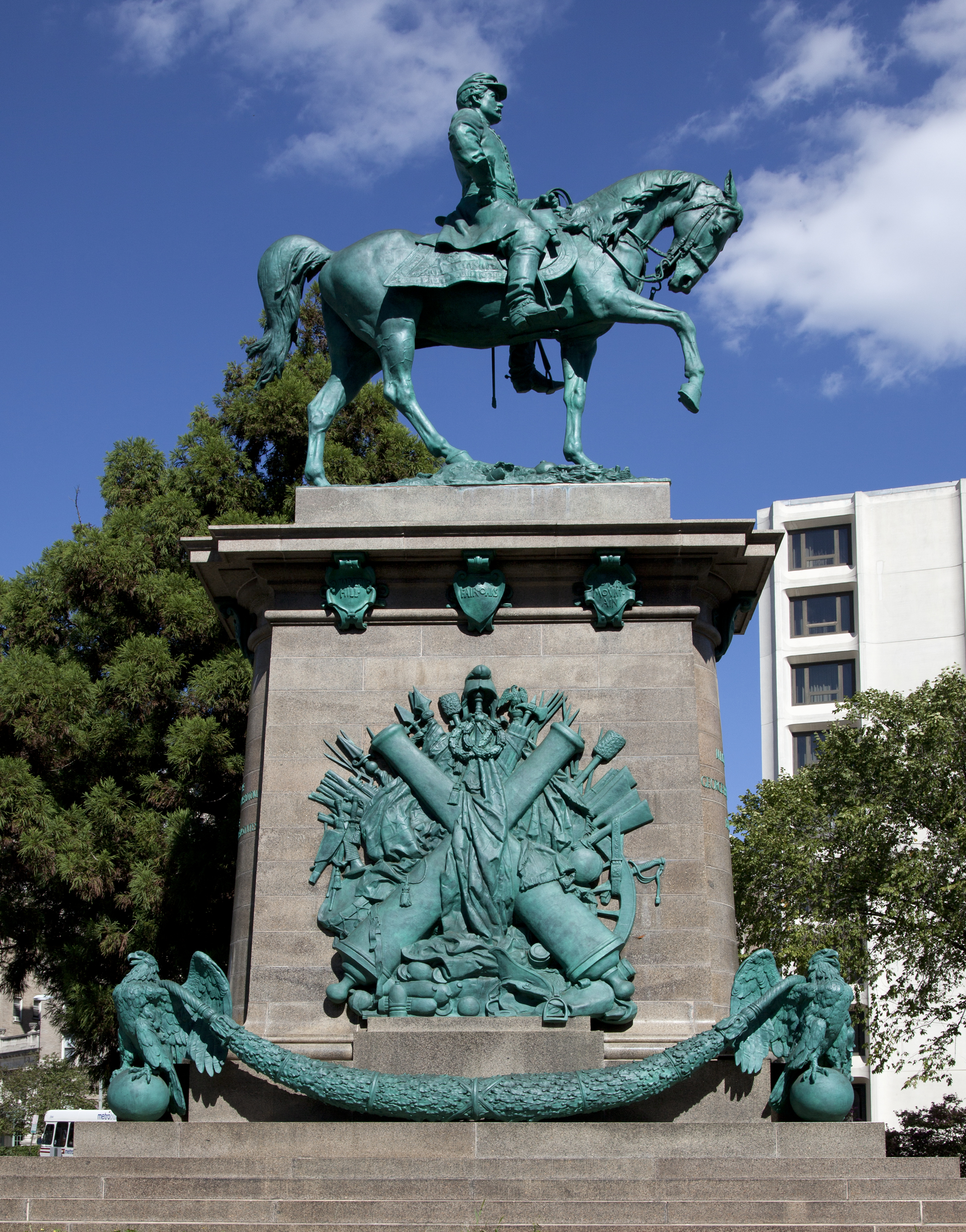 The Major General George B. McClellan monument in Washington, D.C.